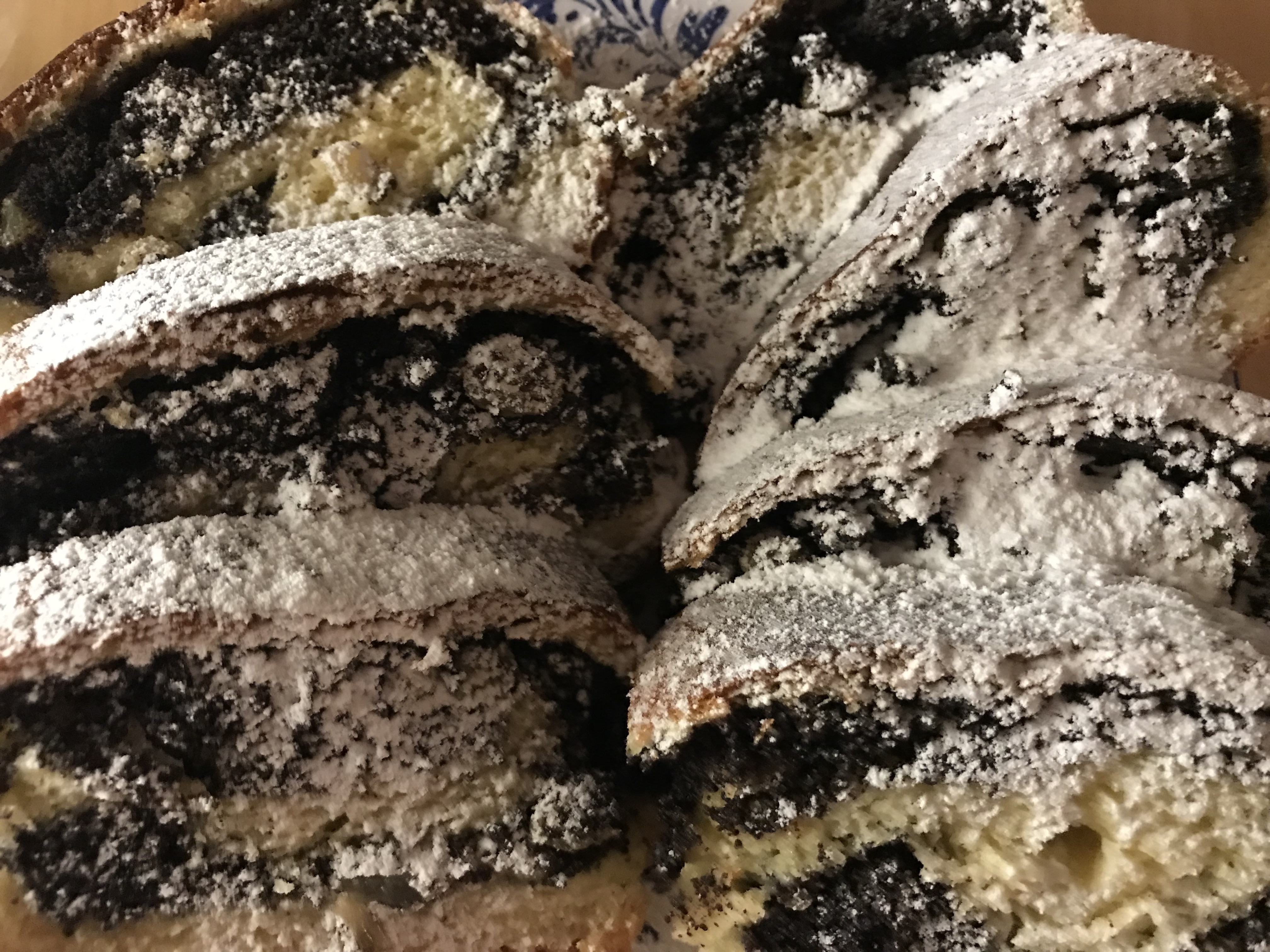 Štrudla s makom - Poppy seed desert from Serbia, Vojvodina